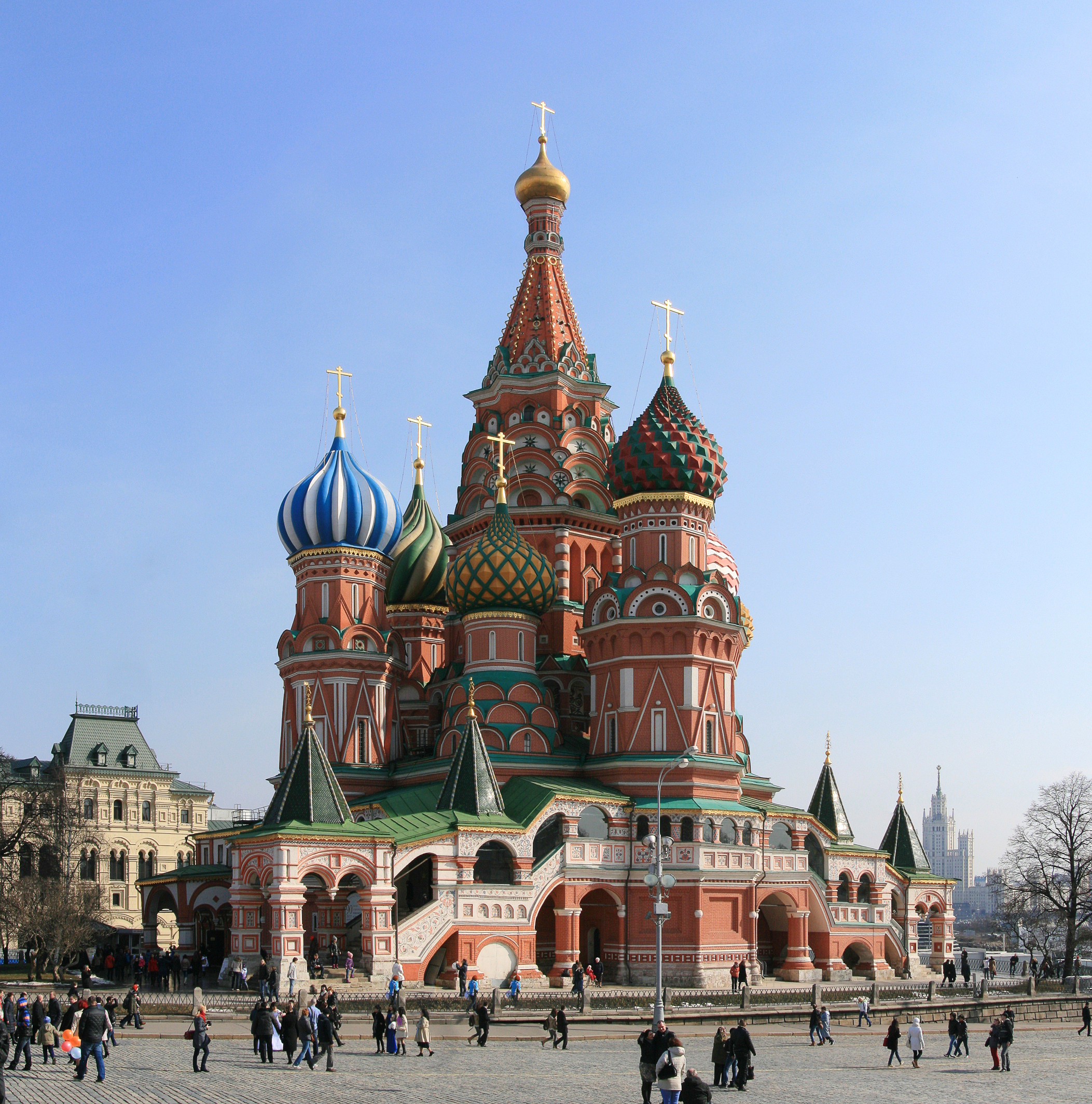 Saint Basil's Cathedral, Red square, Moscow